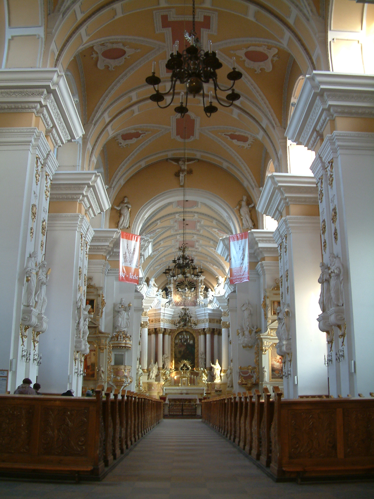 Interior of Church of Minorites in Poznań